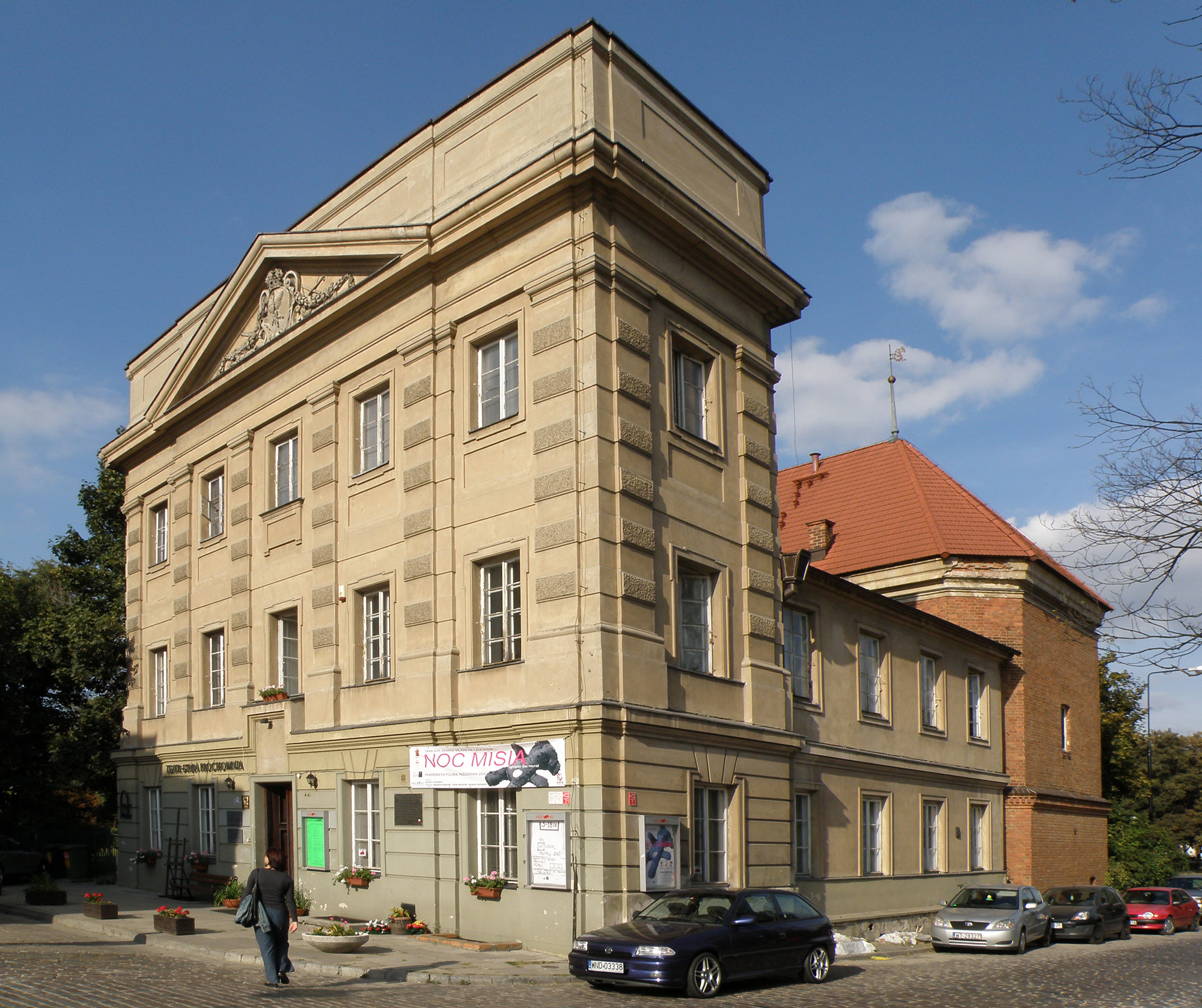 Poland, Boleść Street in Warsaw